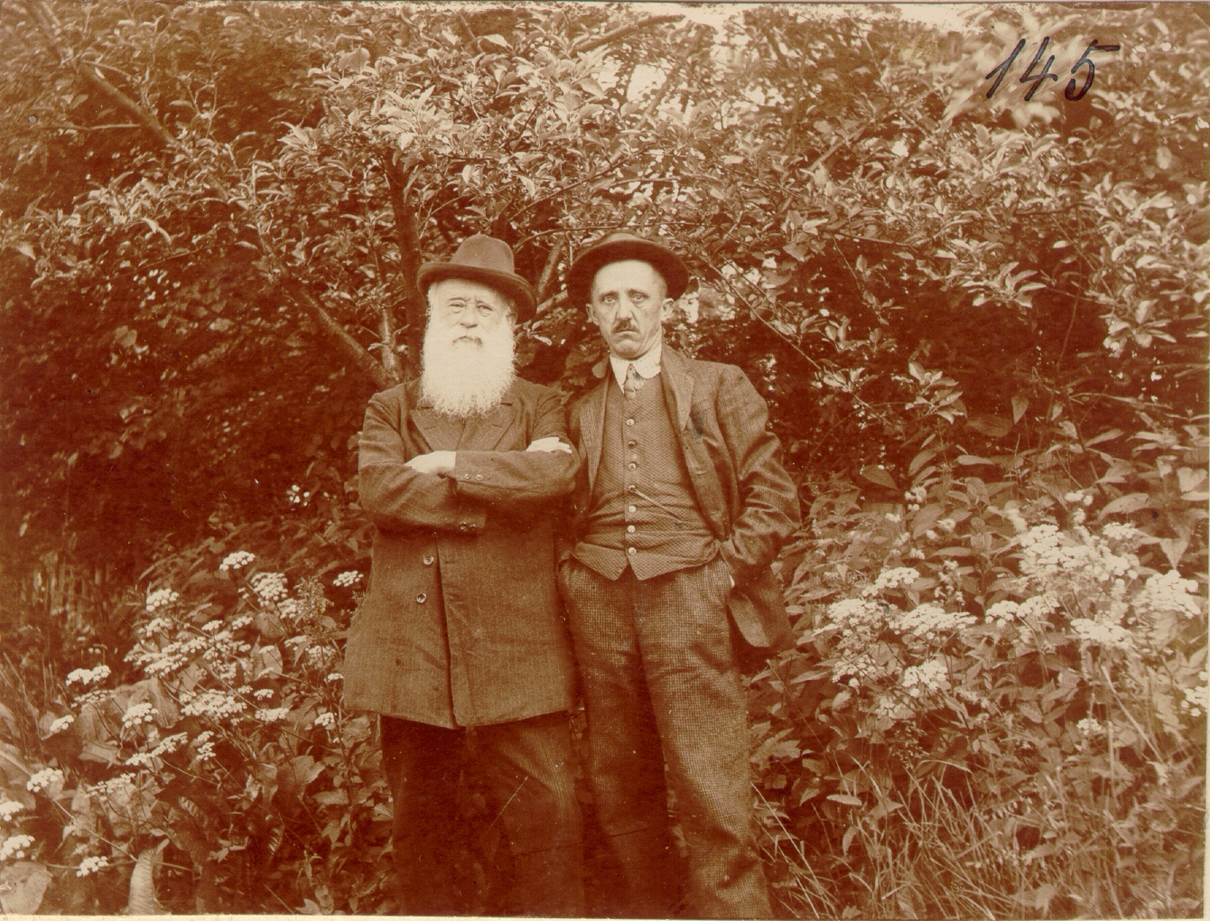 Sepia-toned photograph depicting two men standing, with a background of foliage.